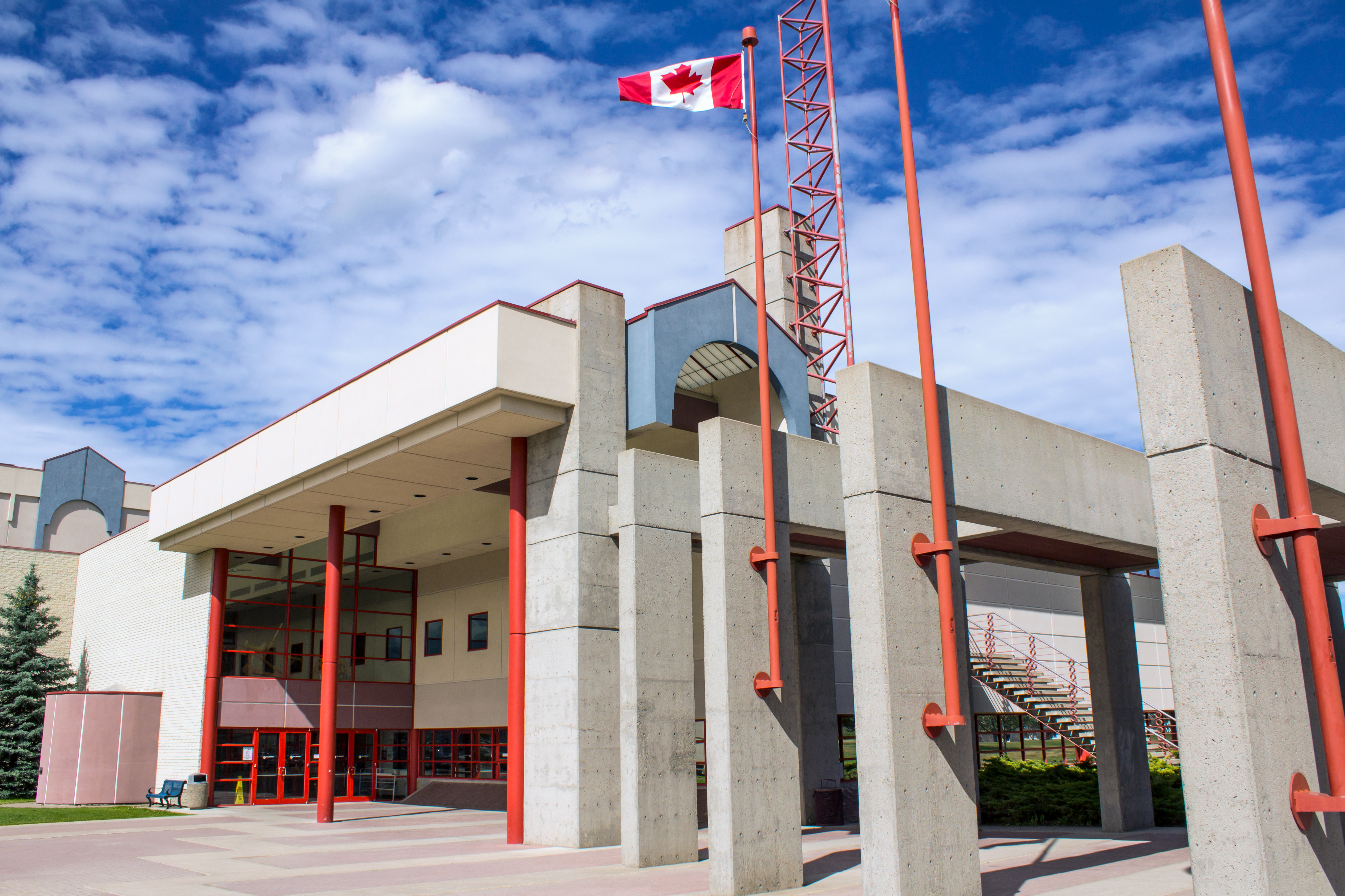 Entrance to the main College of New Caledonia building, located in Prince George, British Columbia.